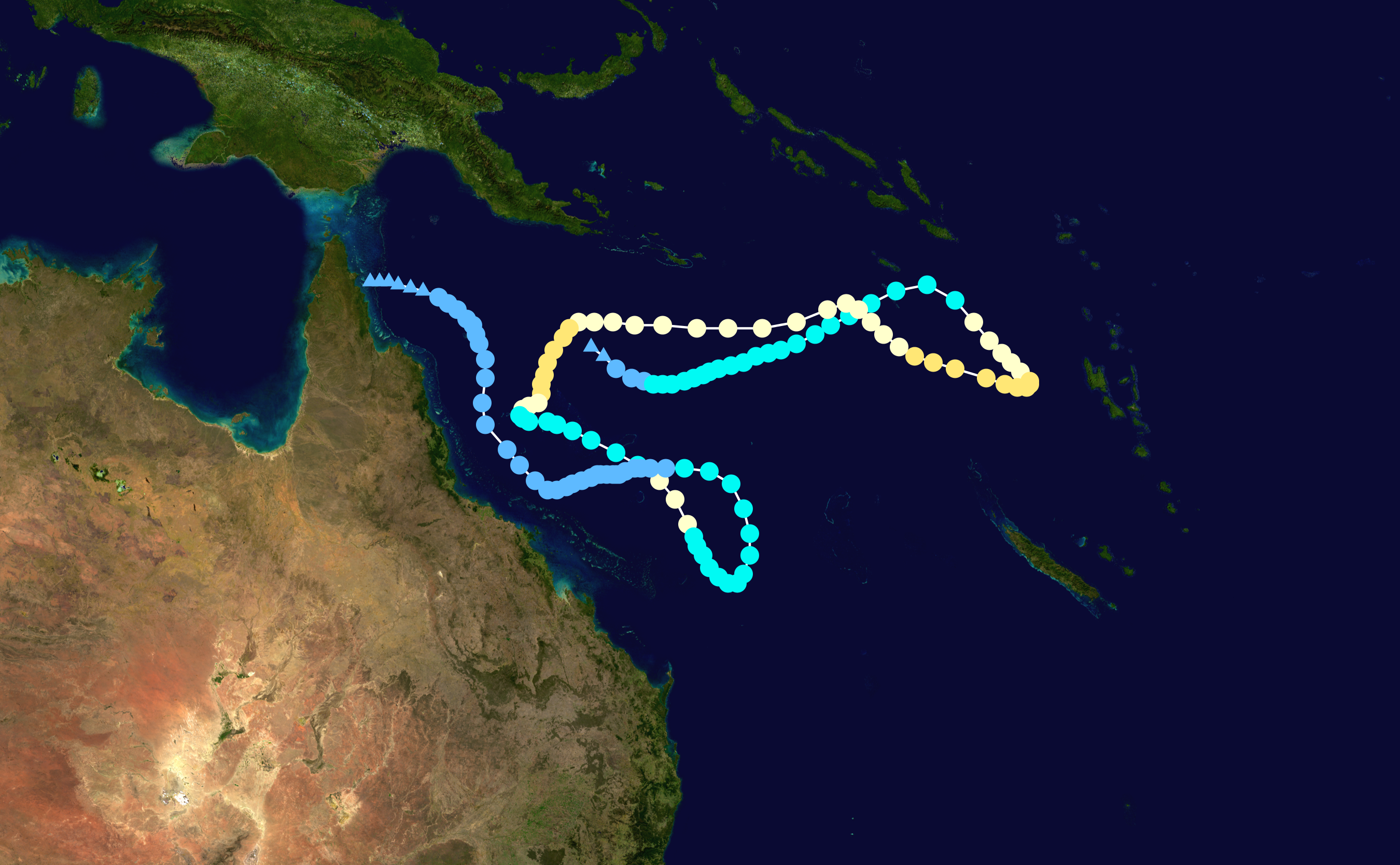 Track map of Severe Tropical Cyclone Katrina of the 1997–98 Australian region and South Pacific cyclone seasons. The points show the location of the storm at 6-hour intervals. The colour represents the storm's maximum sustained wind speeds as classified in the Saffir-Simpson Hurricane Scale (see below), and the shape of the data points represent the nature of the storm, according to the legend below.